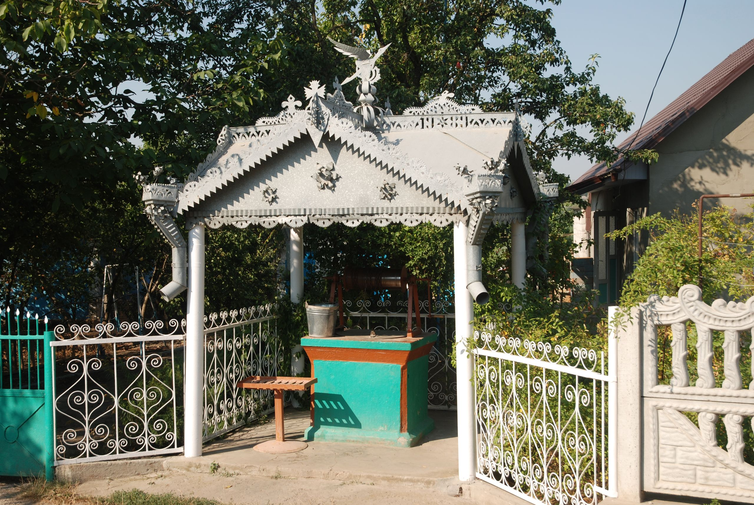 Zgurița, water well